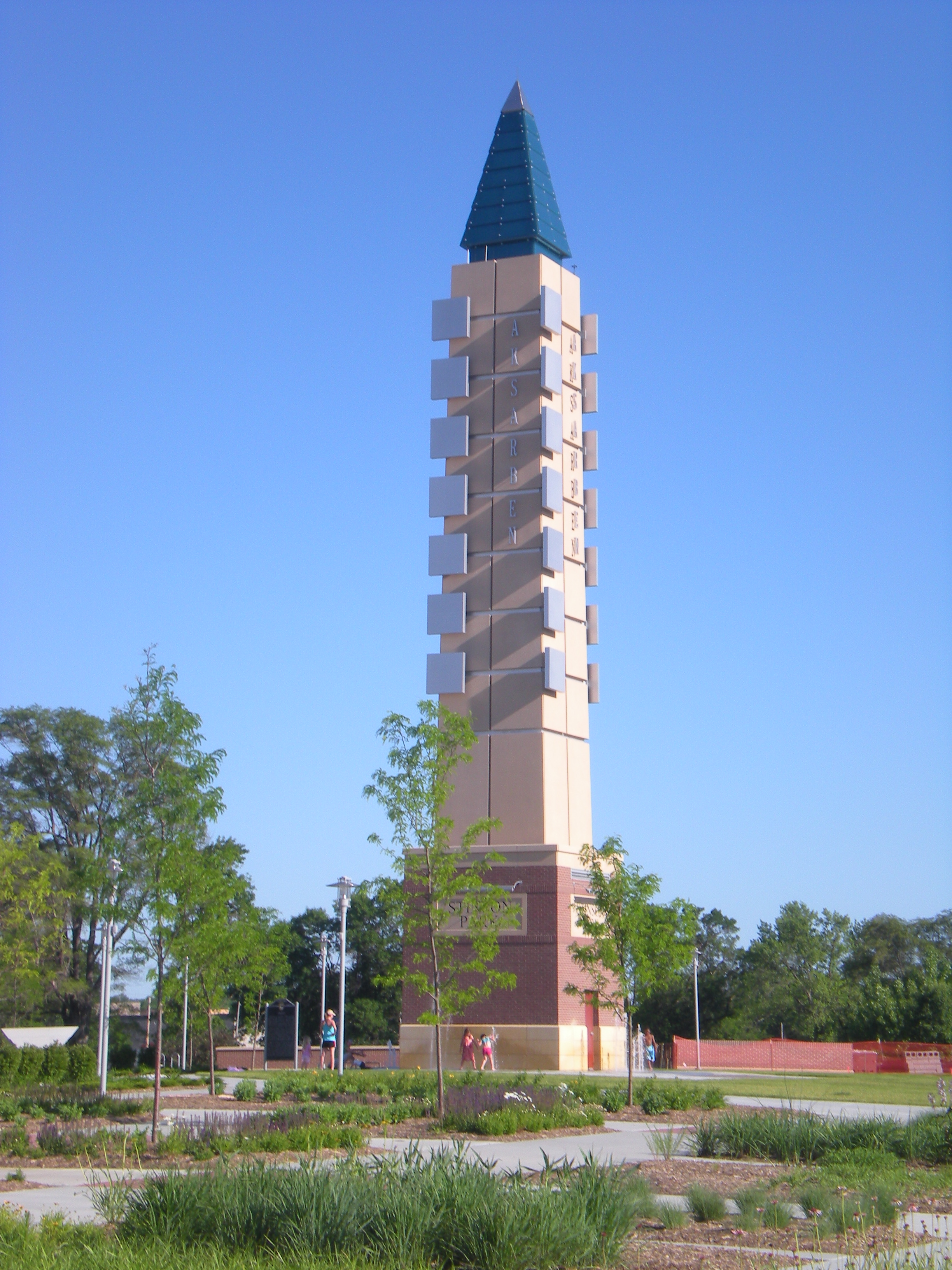 The Aksarben VillageOmahaObelisk